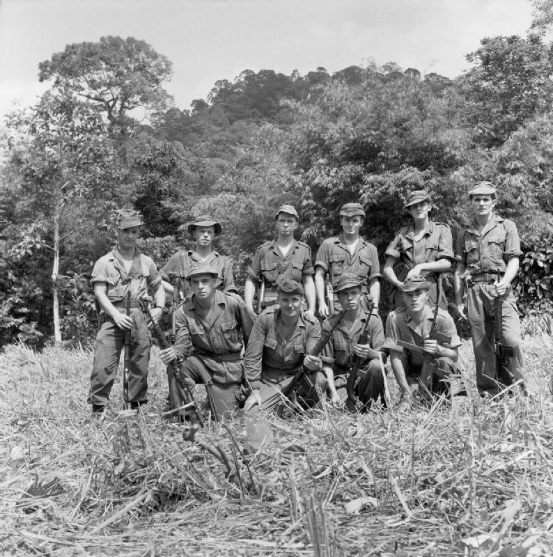 Group photograph of men of 22 Special Air Service Regiment in Malaya.